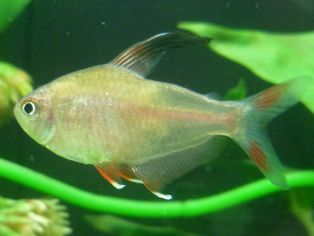 Another male rosy barb (the black dorsal fin variant).